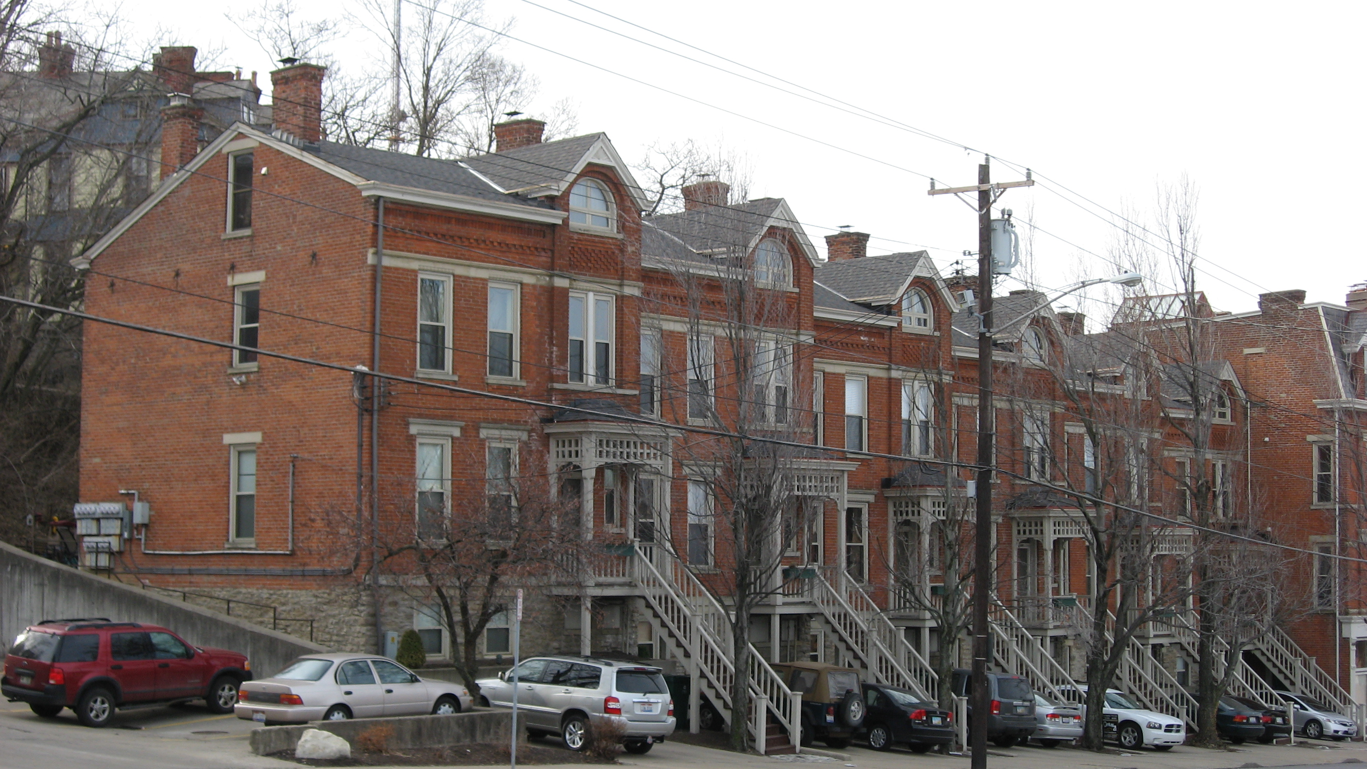 Comprehensive view from the north of the Gilbert Row, located at 2152-2166 Gilbert Avenue on the southern edge of the Walnut Hills neighborhood of Cincinnati, Ohio, United States. Built in 1889, it is listed on the National Register of Historic Places.